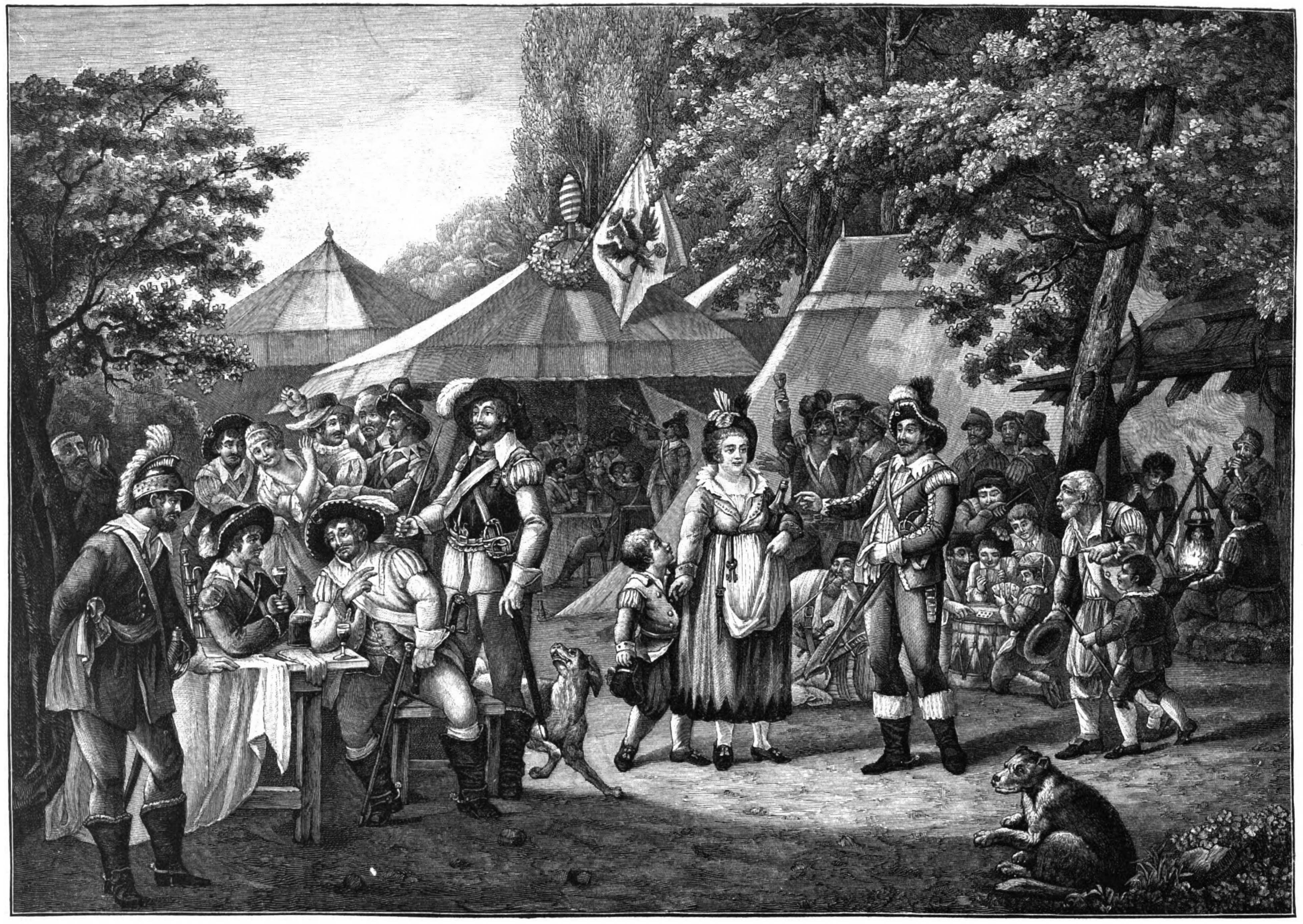 caption: "Wallensteins Lager"